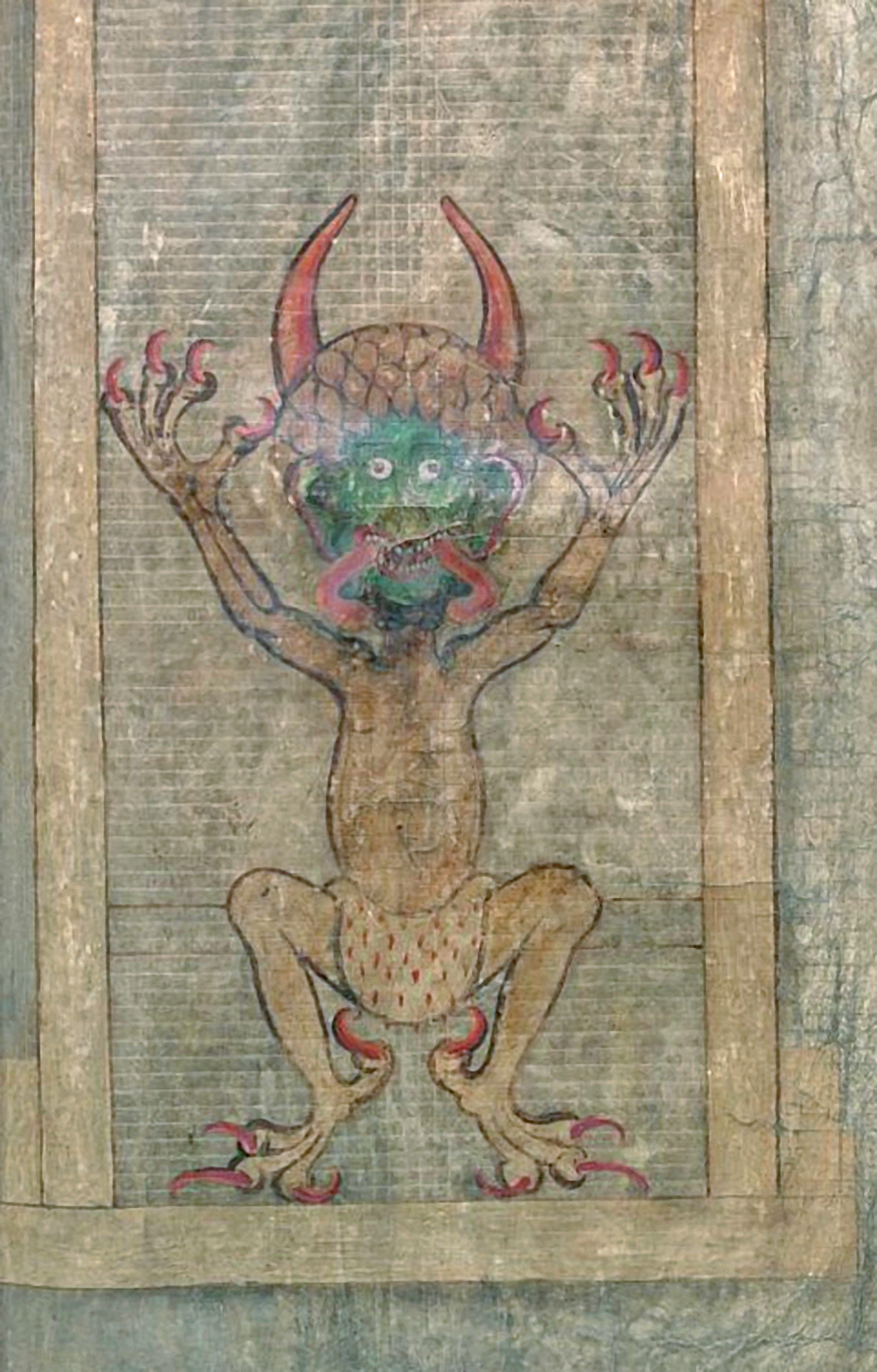 This is an enhanced file of the P.S. Burton image - I have color balanced the image - enhanced colors - and enlarged to 1924x3012 - much care was taken to improve clarity. The intention was to create a version for improved visual study of the image and expand the ability to repurpose the image for other media.